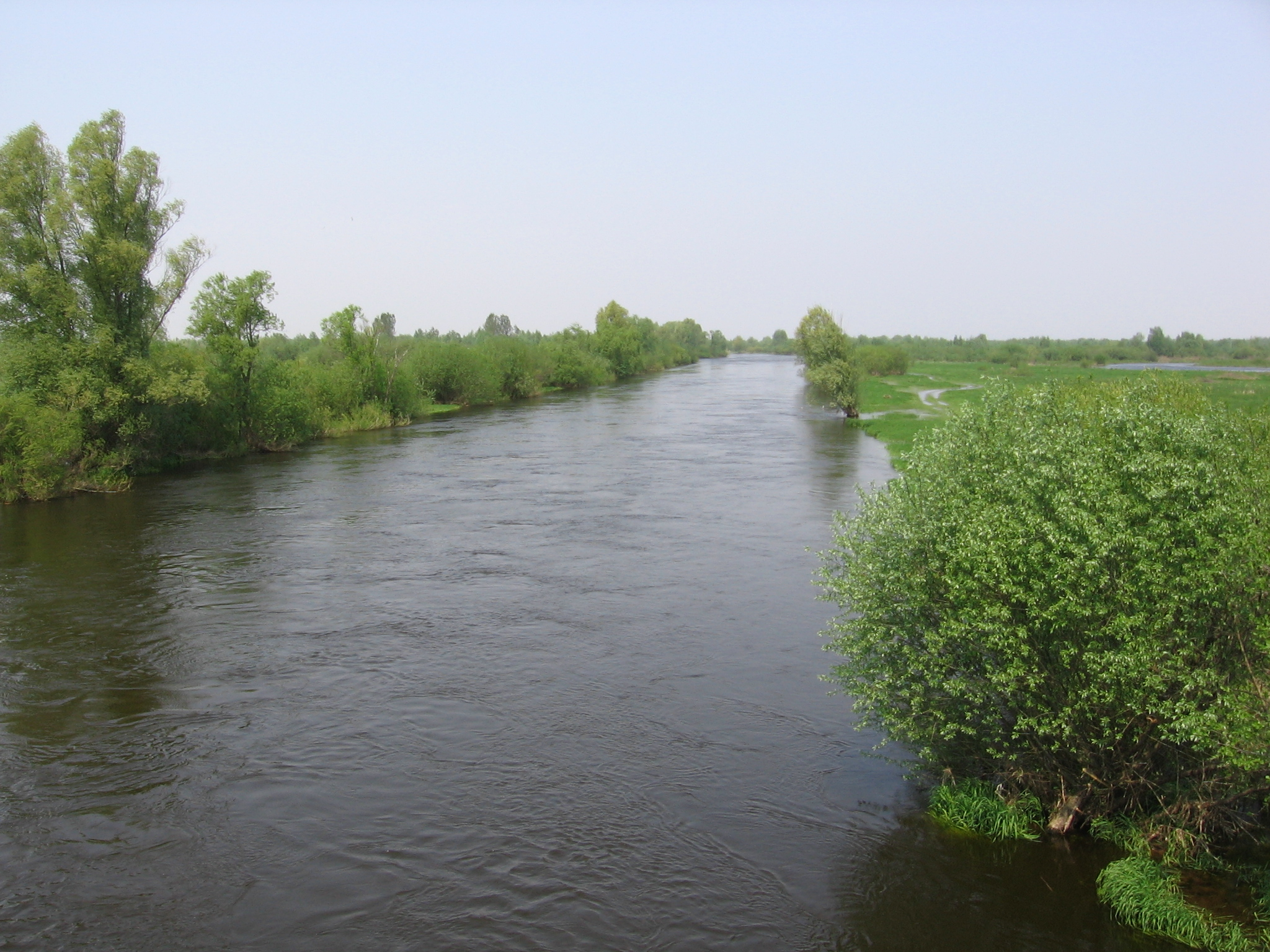 Warta river near Warta town in central Poland